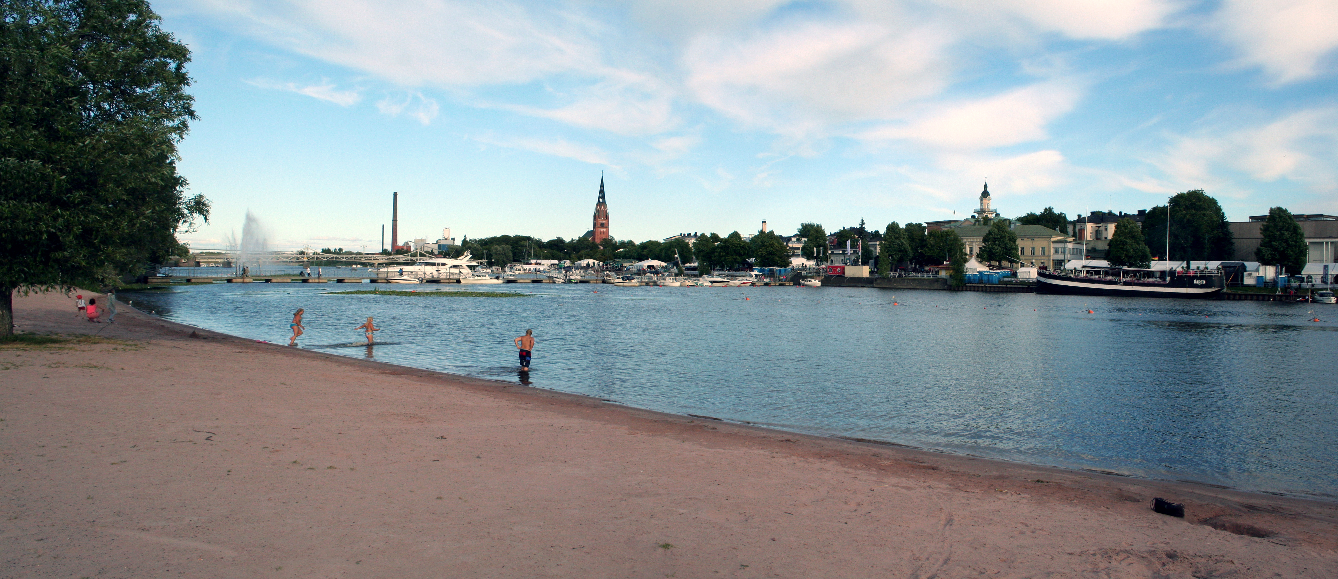 Pori seen over River Kokemäenjoki 2013. Pori Jazz festival.